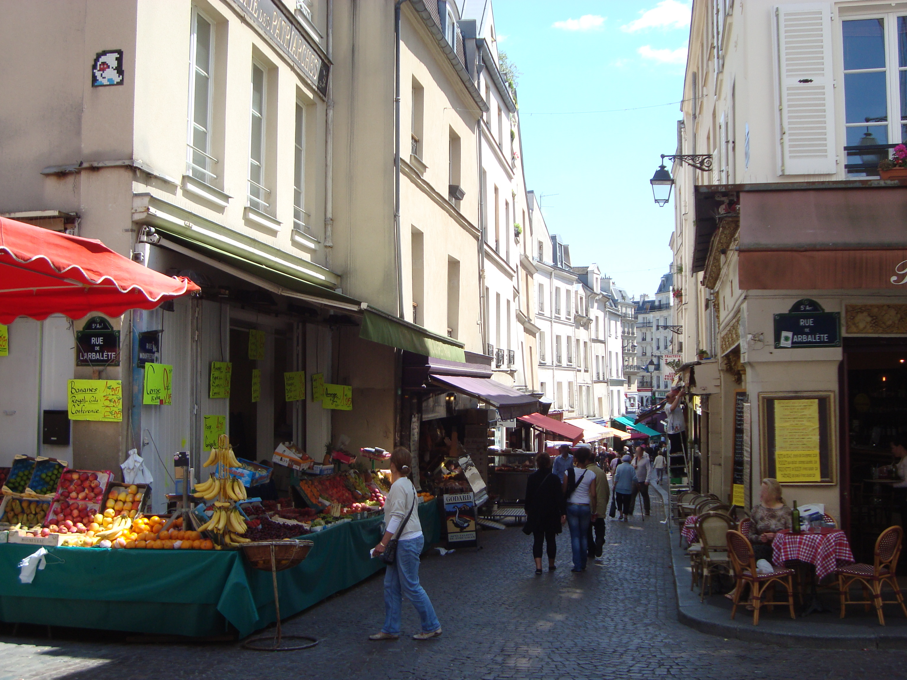 Corner of the rue Mouffetard with the rue de l'Arbalète